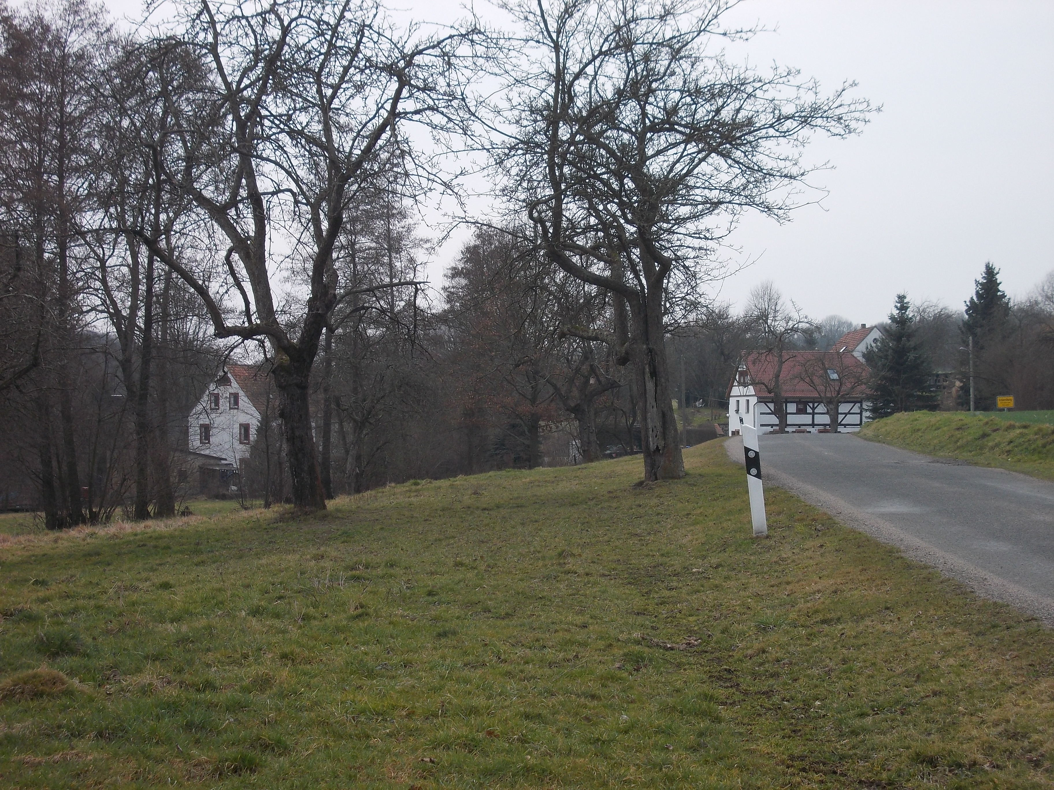 Eckersberg (Kohren-Sahlis, Leipzig district, Saxony)